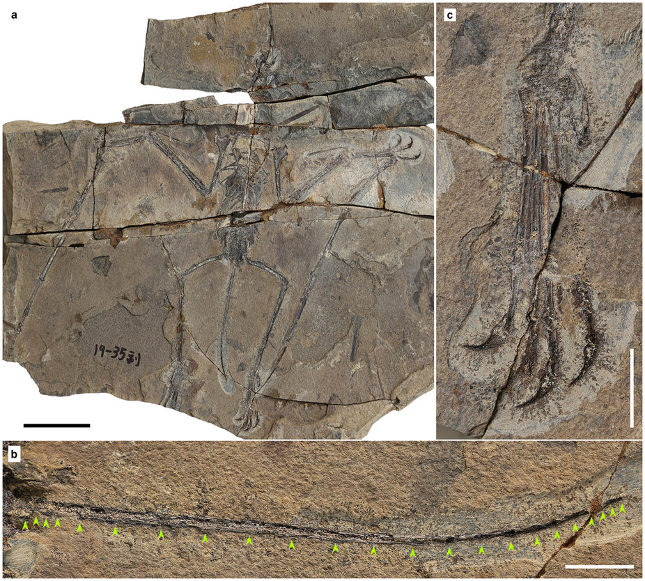 The holotype of Douzhanopterus zhengi gen. et sp. nov. (a) Part of the holotype; (b) close up of the tail, green arrows indicating the anterior and posterior ends of each caudal vertebra; (c) close up of the right foot. Scale bars are 50 mm, 10 mm, and 10 mm in (a,b and c), respectively.